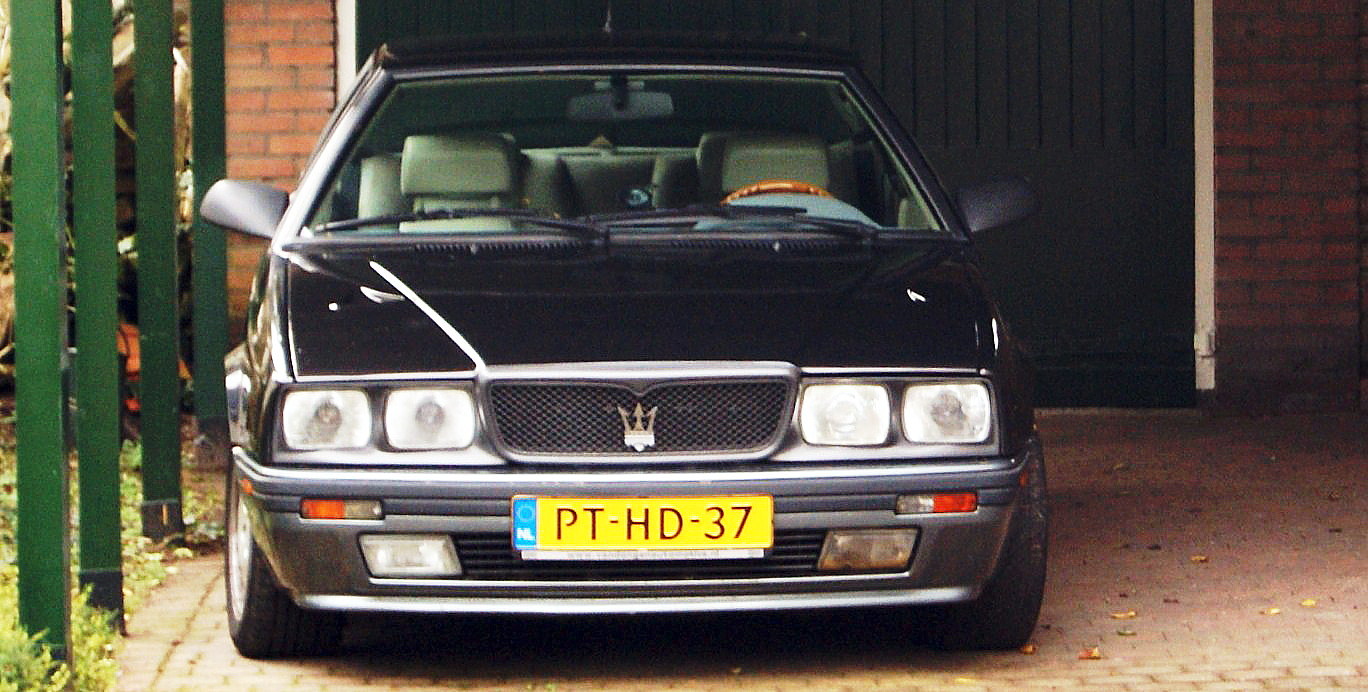 Maserati 2.24 v, cropped and retouched Version of File 1990_Maserati_BiTurbo_(8854370397).jpg